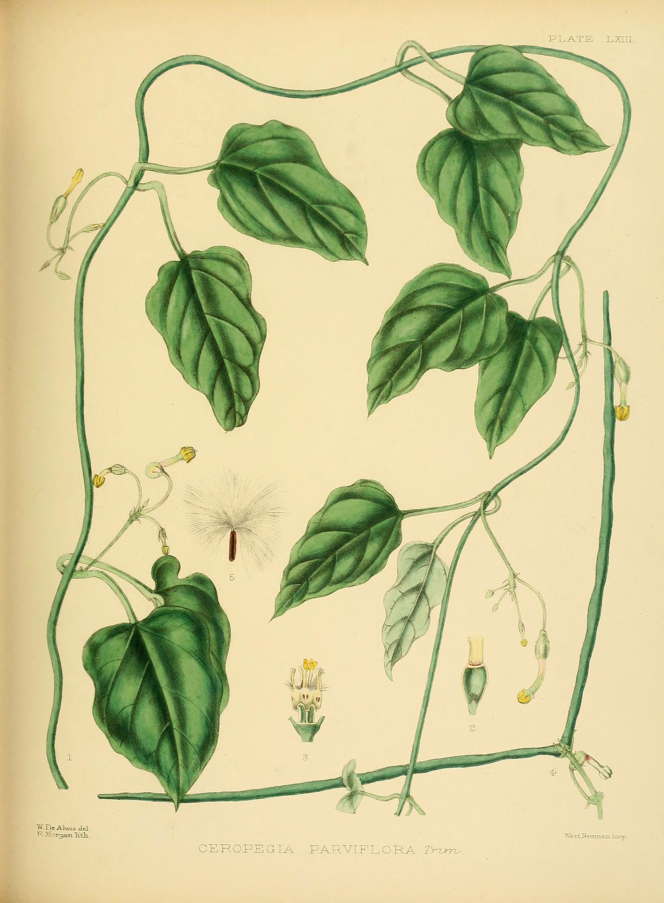 PLATE LX1II. W-ReAlwisdel. J '^ CEROPEGIA PAR VI FLORA Tr-um, Newman rmp.